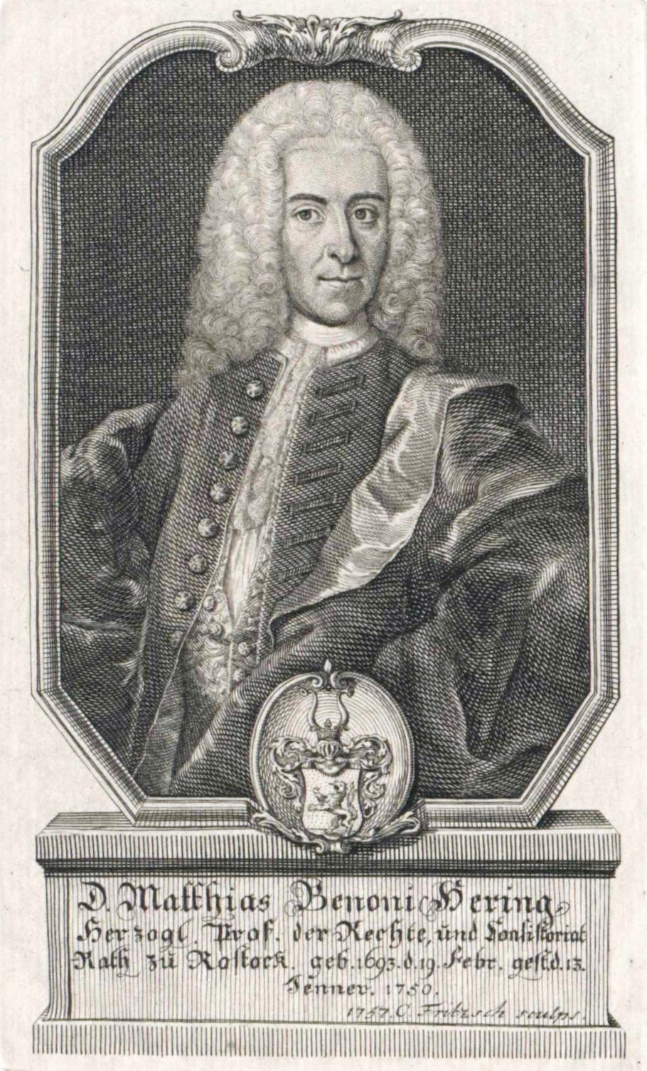 Matthias Benoni Hering (1693–1750)